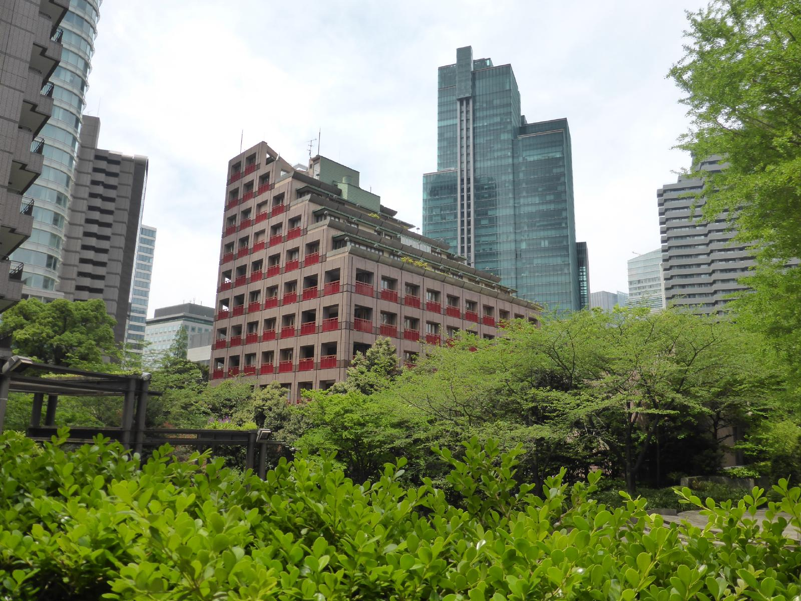 Residence of the Swedish Embassy staff in Tokyo